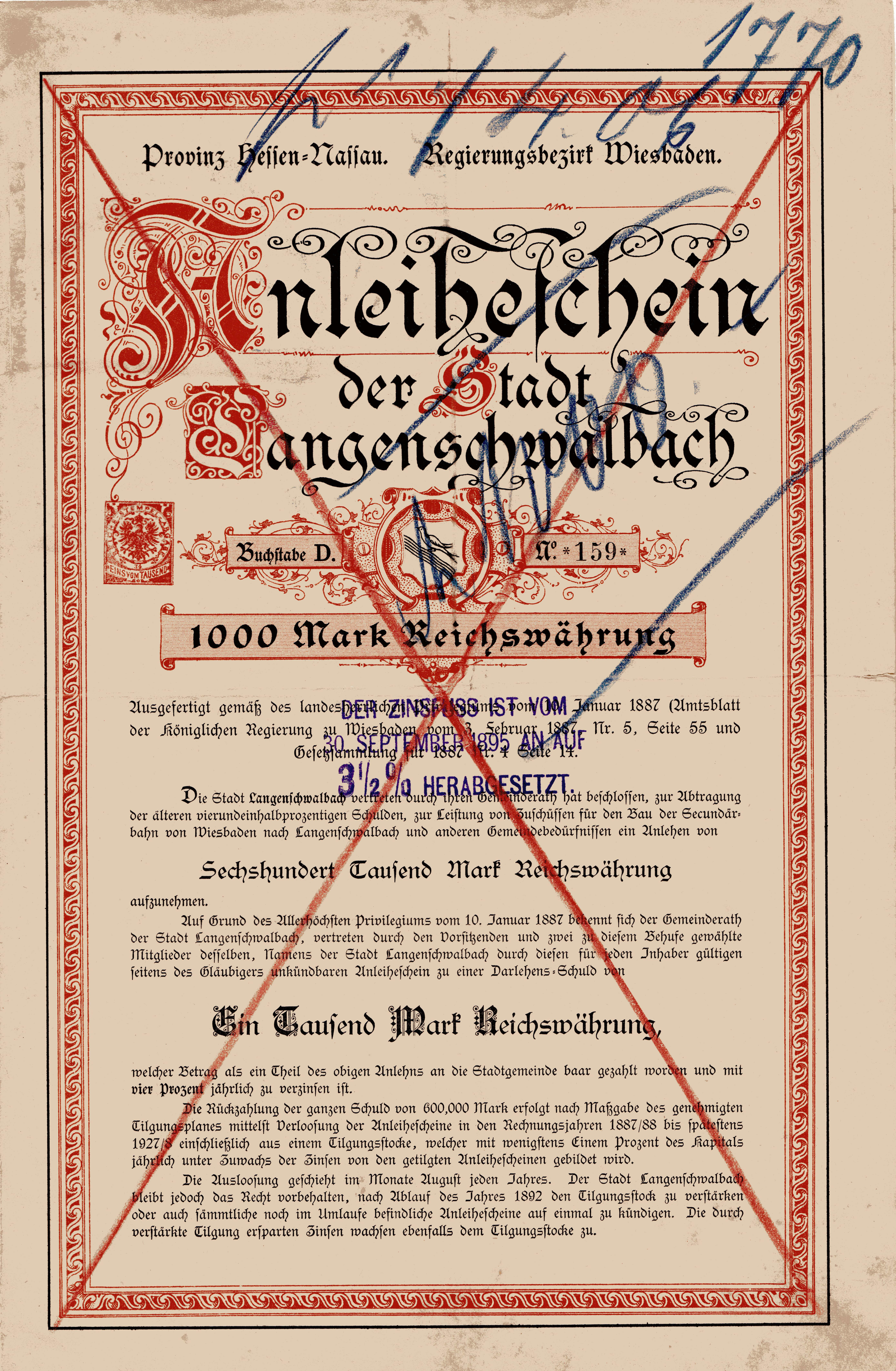 Bond of the City of Langenschwalbach, issued 30. March 1887